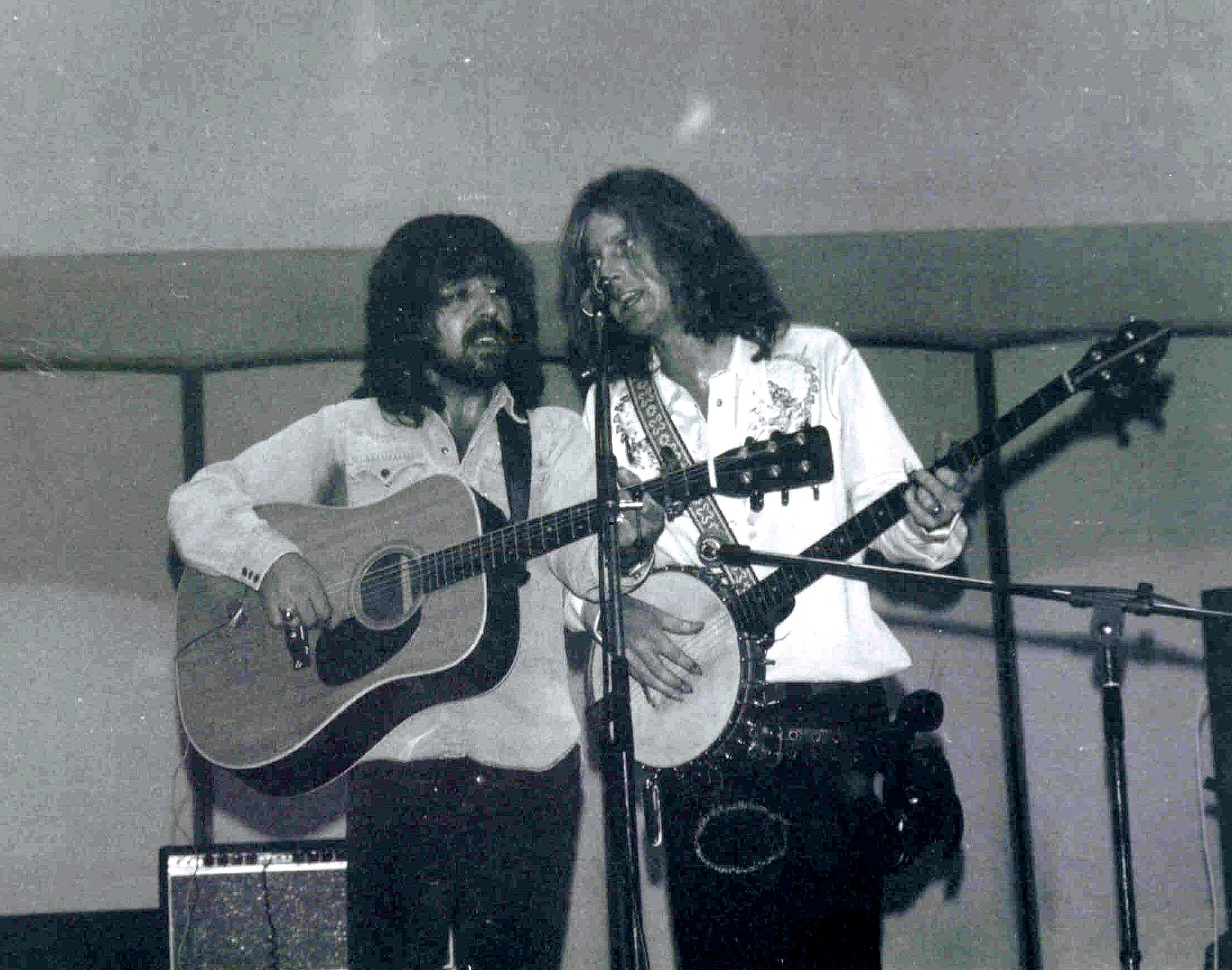 Byrds with Banjo Sept. '72---Wash. U.---Clarence White, Roger McGuinn